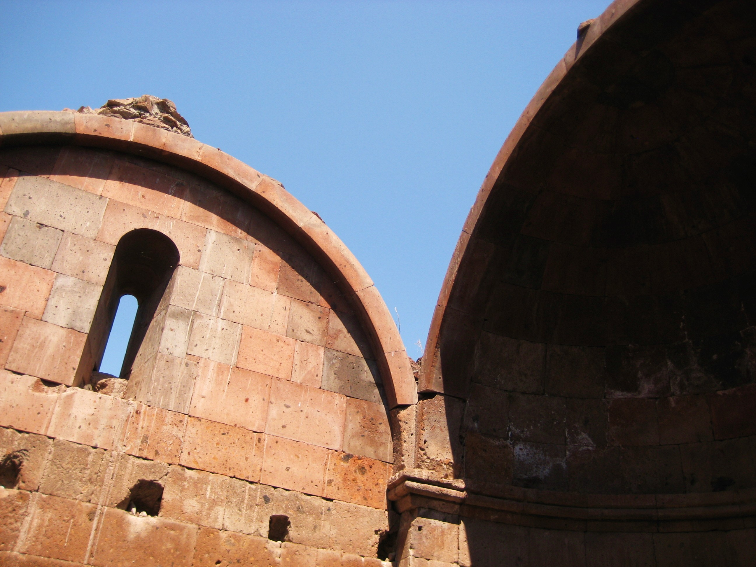 Spitakavor Church of Ashtarak, internal view.